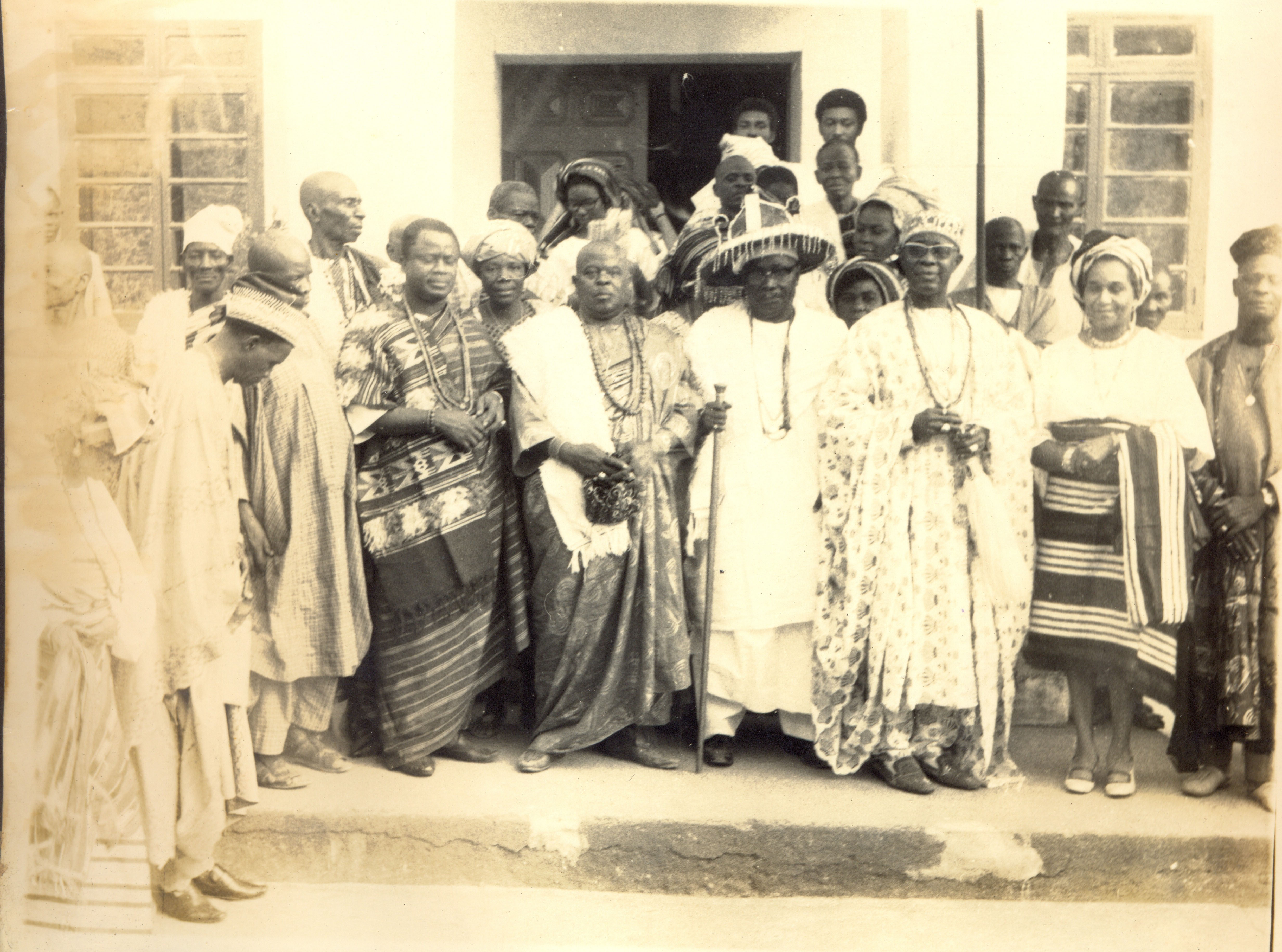 Chieftancy title from the Alake of Egbaland.